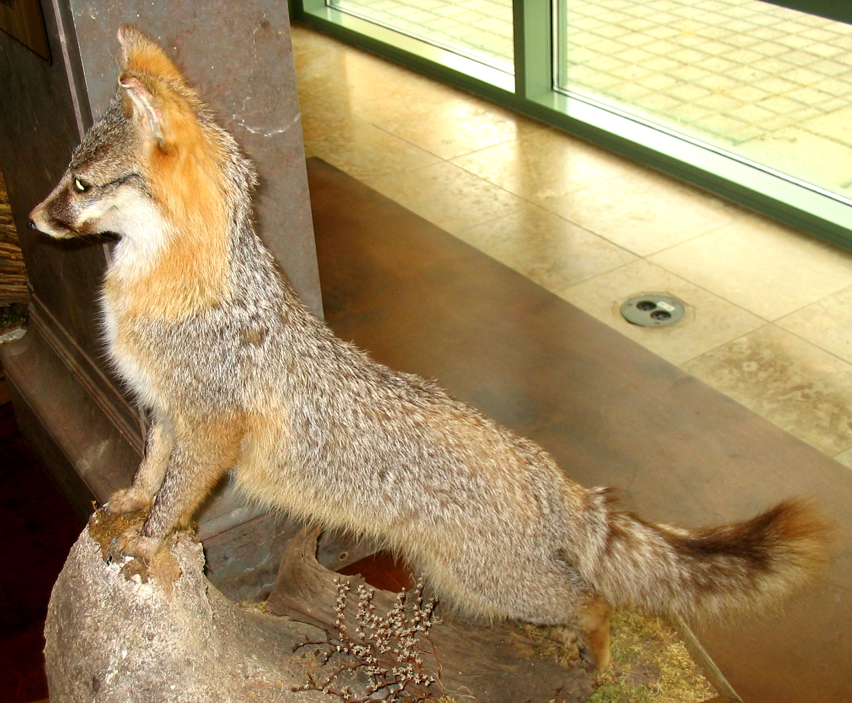 Taxidermied Grey fox on display at the Patuxent Wildlife Research Center.